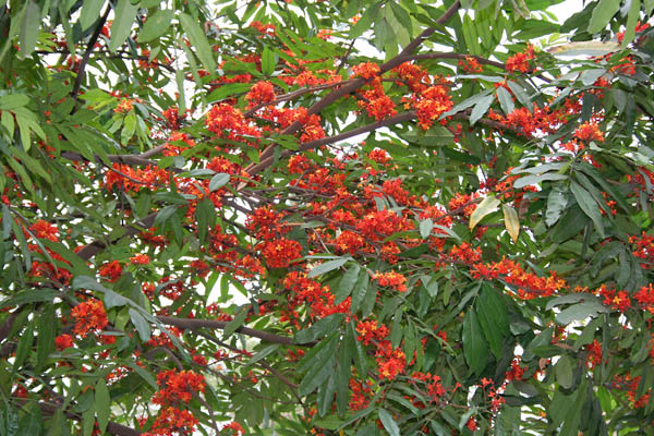 Sita Ashok Saraca asoca in Kolkata, West Bengal, India.